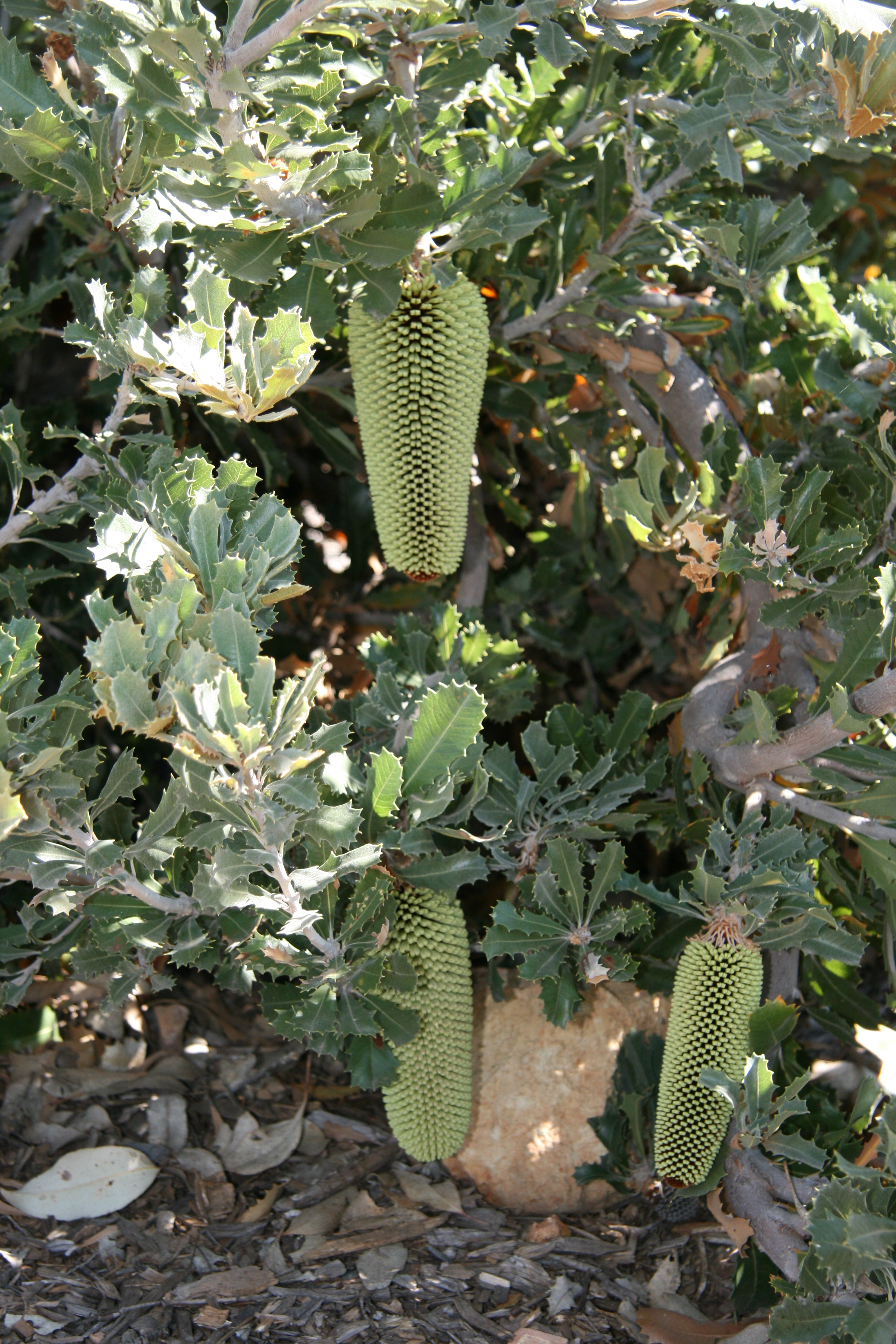 Banksia lemanniana, Burrendong Arboretum